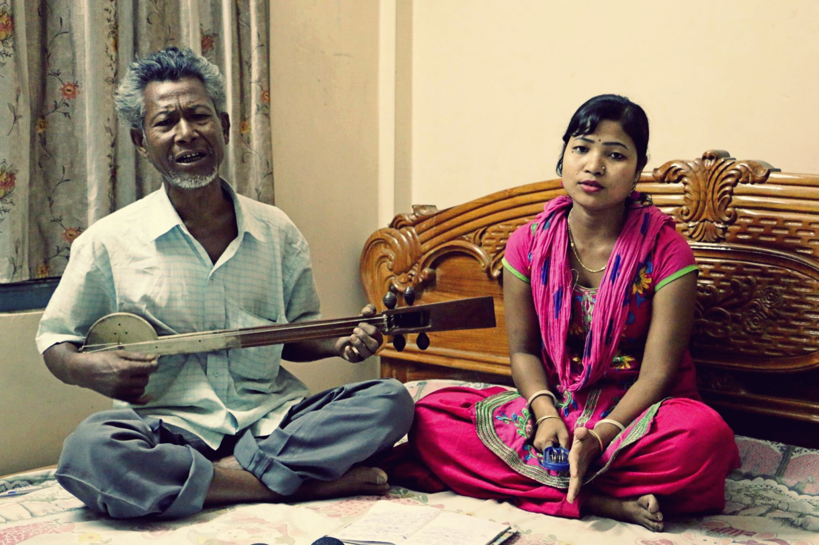 Indian musicians